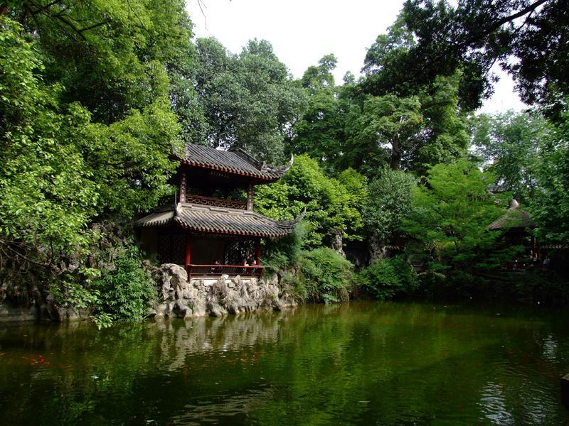 Yanhuachi, a Szechwanese classical garden near Chengdu